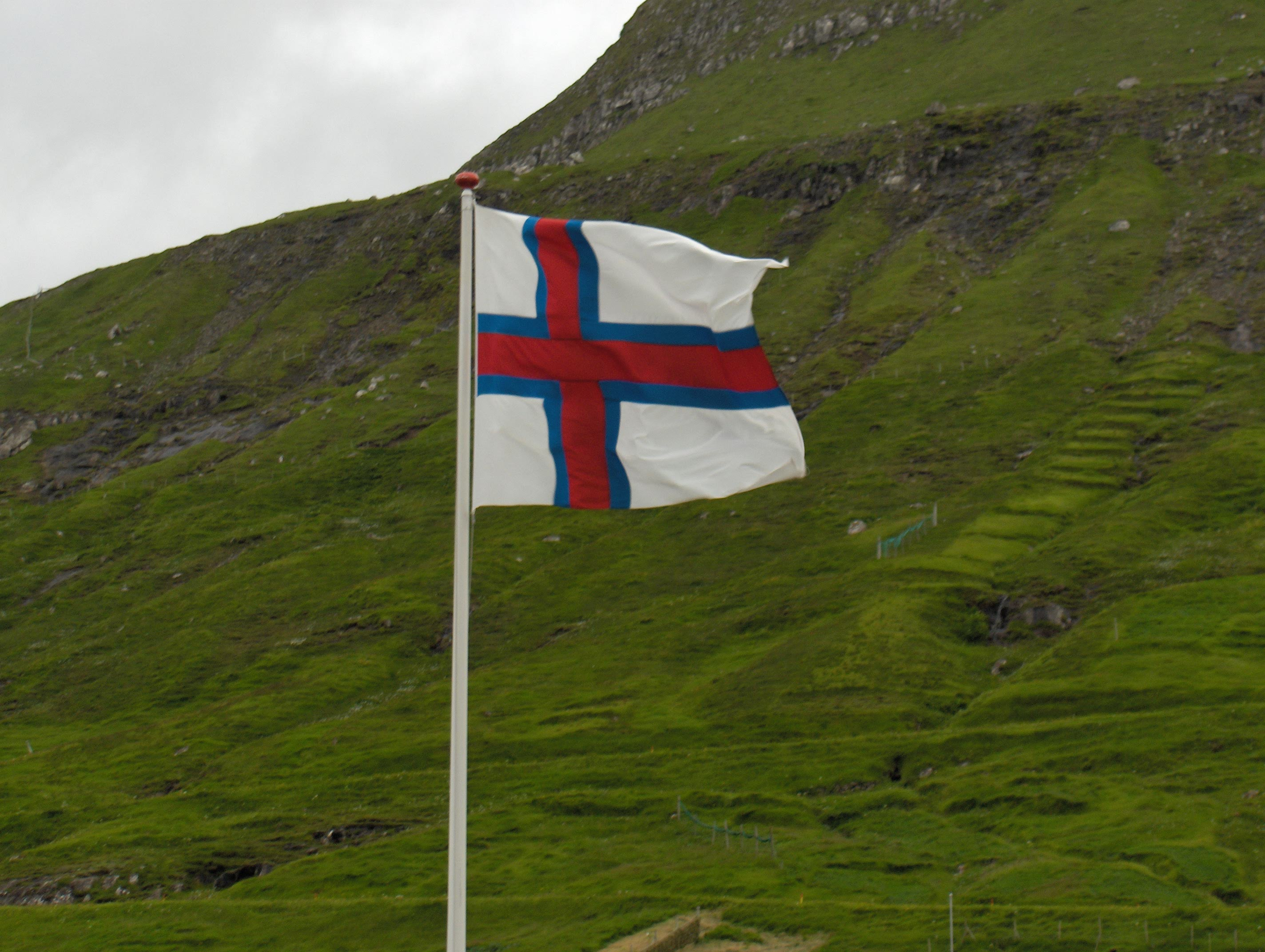 Flag of the Faroe Islands flying at Funningur, Eysturoy, Faroe Islands